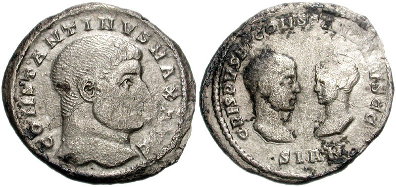 Constantine I, with Crispus and Constantine II, as Caesars. AD 307-337. AR Miliarense (23mm, 3.92 g). Sirmium mint. Struck AD 320. CONSTANTINUS MAX AUG, bare head of Constantine I right CRISPUS ET CONSTANTINUS [...], confronted busts of Crispus and Constantine II; SIRM. RIC VII 14; Gnecchi pl. 29, 8; Bastien, Donativa p. 76, note 11; RSC 3. Near VF, surfaces rough, minor lamination flaws. Very rare.